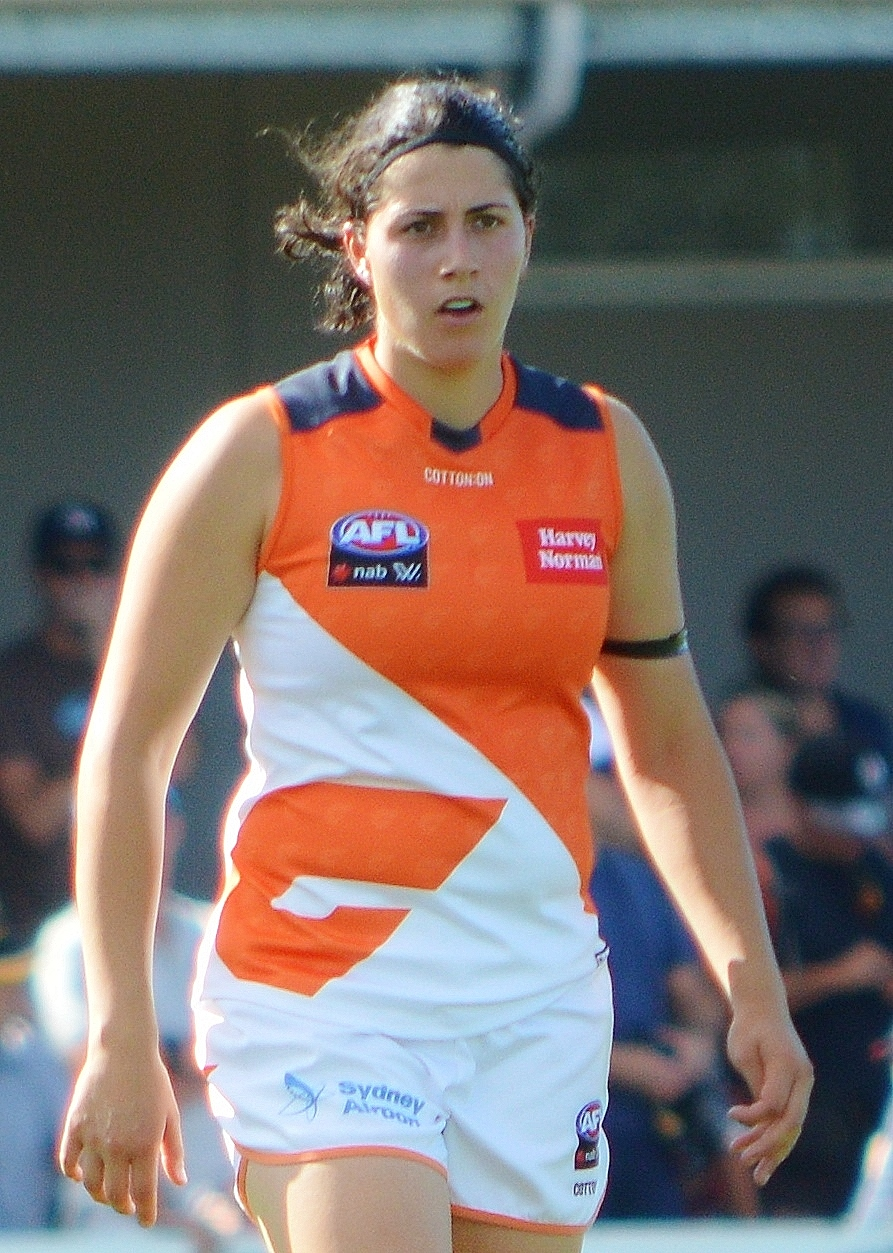 Rebecca Privitelli during the round 1, 2018 AFL Women's match between Melbourne and Greater Western Sydney.